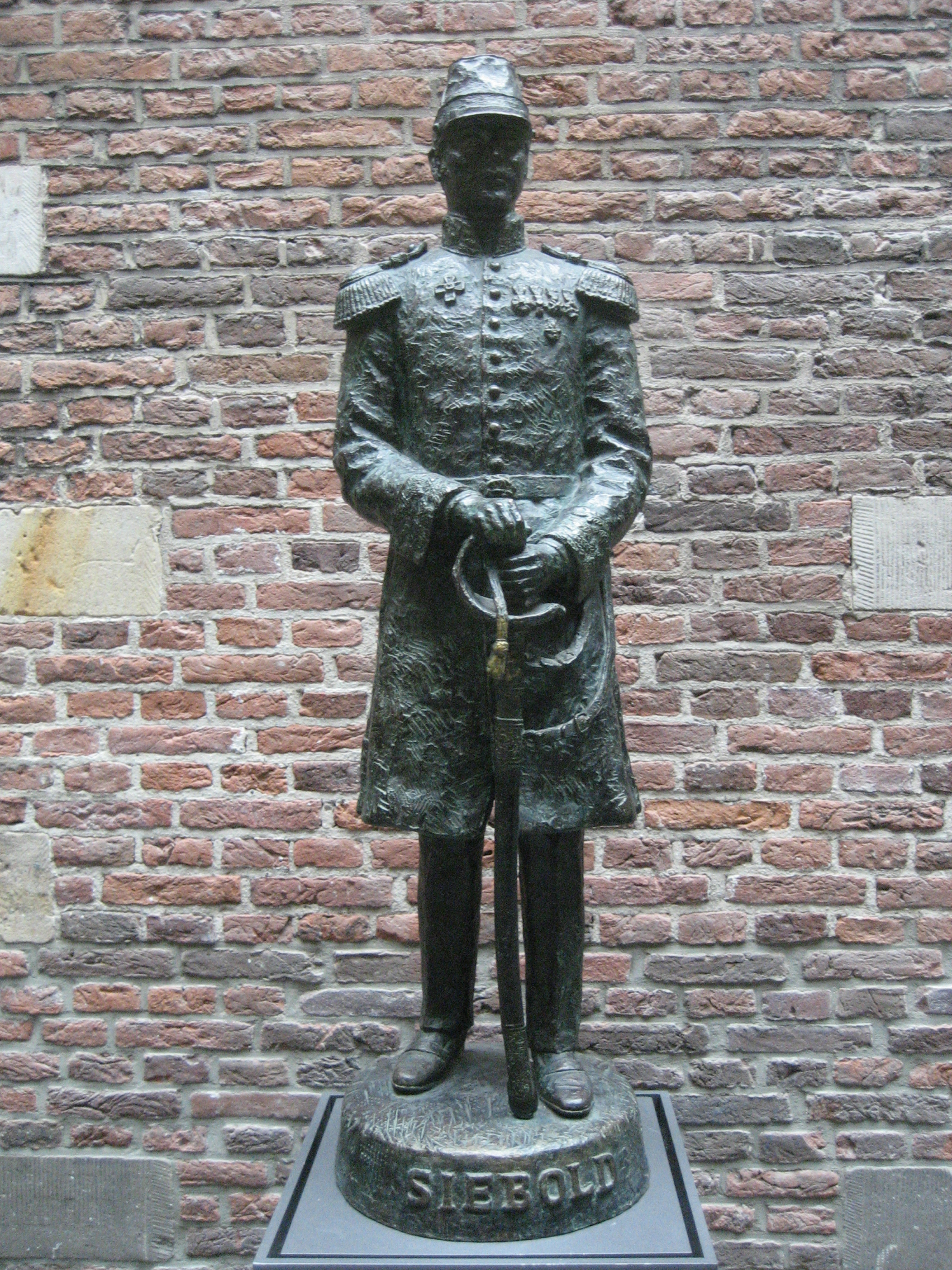 Statue of the young Germany physician Philipp Franz von Siebold (1796-1866) during his first stay in Japan (1823-29), made by Tominaga Naoki (富永直樹, 1913-2006) in 1979. Academy Building, Rapenburg, Leiden University (The Netherlands)